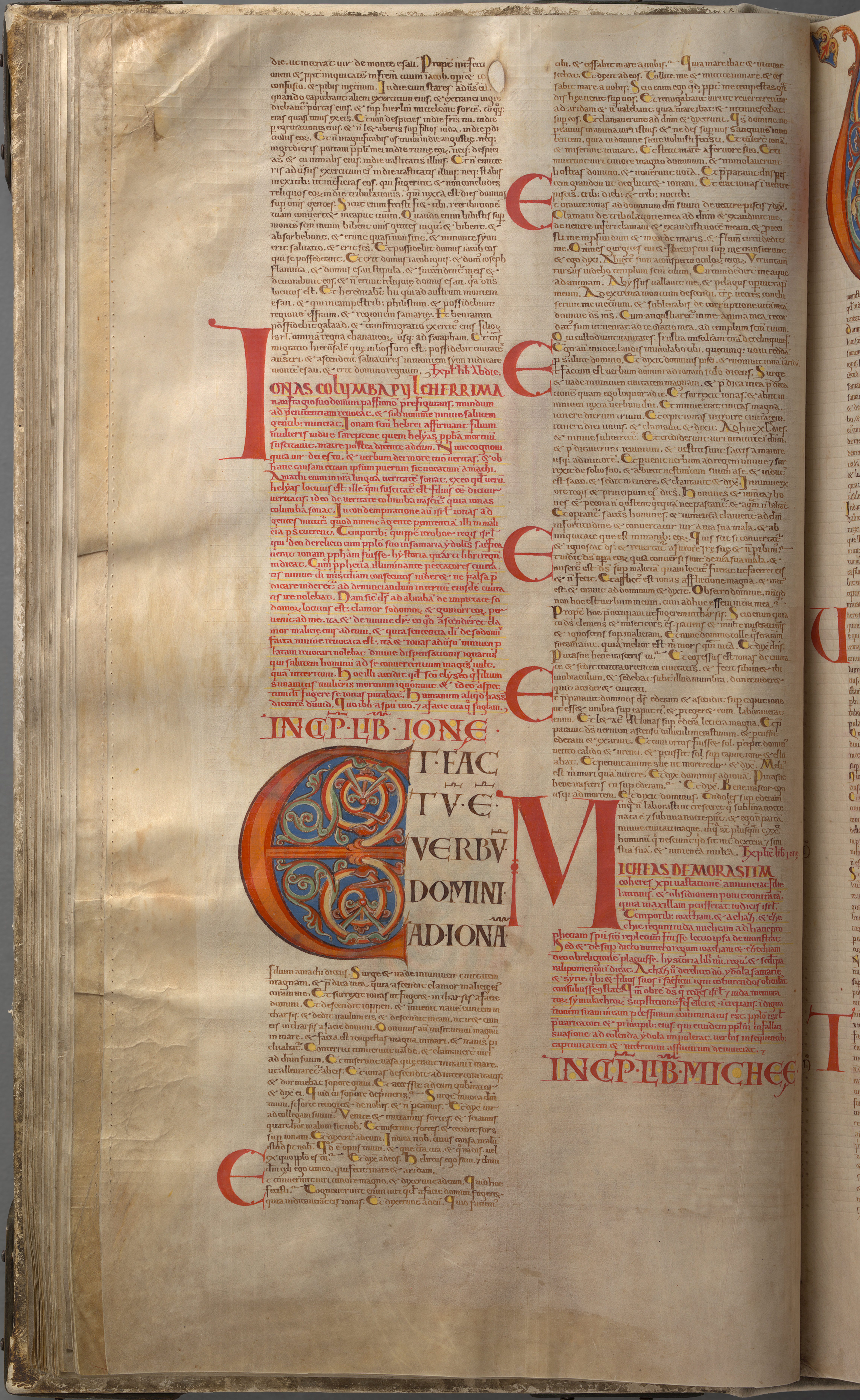 Giant Book) is the largest extant medieval manuscript in the world. It is also known as the Devil's Bible because of a large illustration of the devil on the inside and the legend surrounding its creation. It is thought to have been created in the early 13th century in the Benedictine monastery of Podlažice in Bohemia (modern Czech Republic). It contains the Vulgate Bible as well as many historical documents all written in Latin. During the Thirty Years' War in 1648, the entire collection was taken by the Swedish army as plunder, and now it is preserved at the National Library of Sweden in Stockholm, though it is not normally on display. This page contains the last part of the book of Obadiah and the whole book of Jonah.